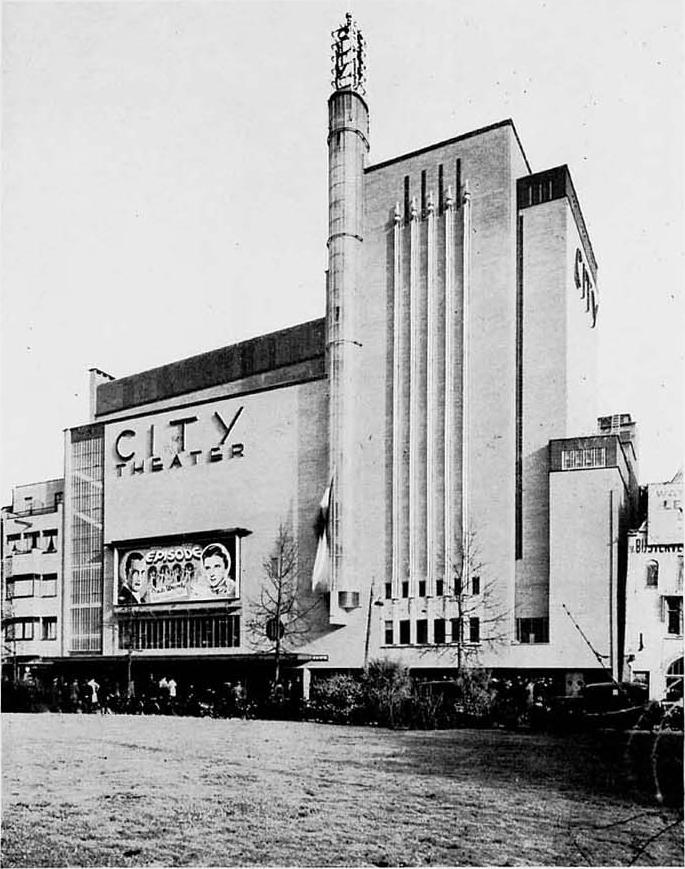 J. Wils and O. Rosendahl (architects). City Theater, Kleine-Gartmanplantsoen 15-19, Amsterdam. 1934-1935.